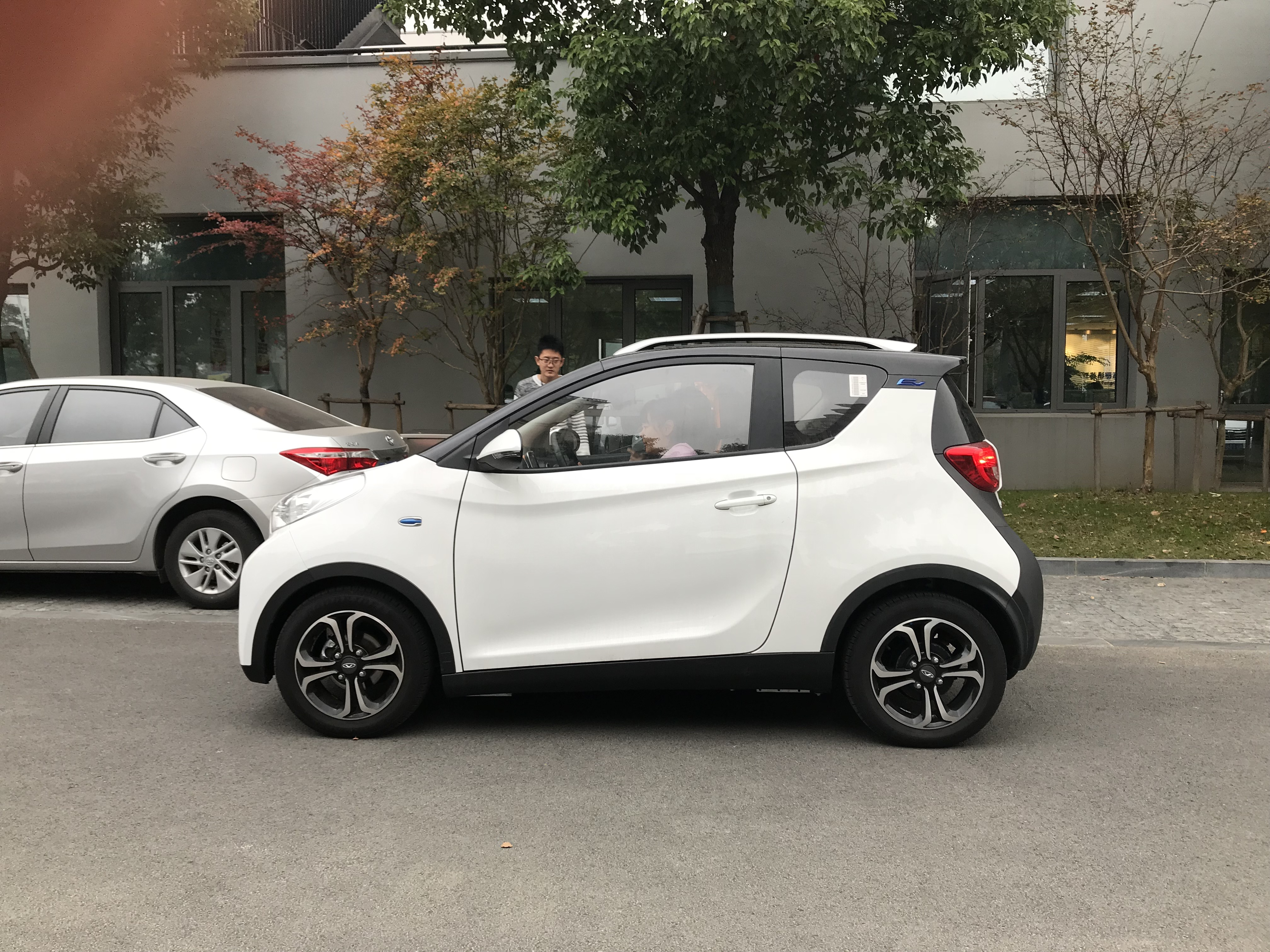 Chery eQ1 EV side view.